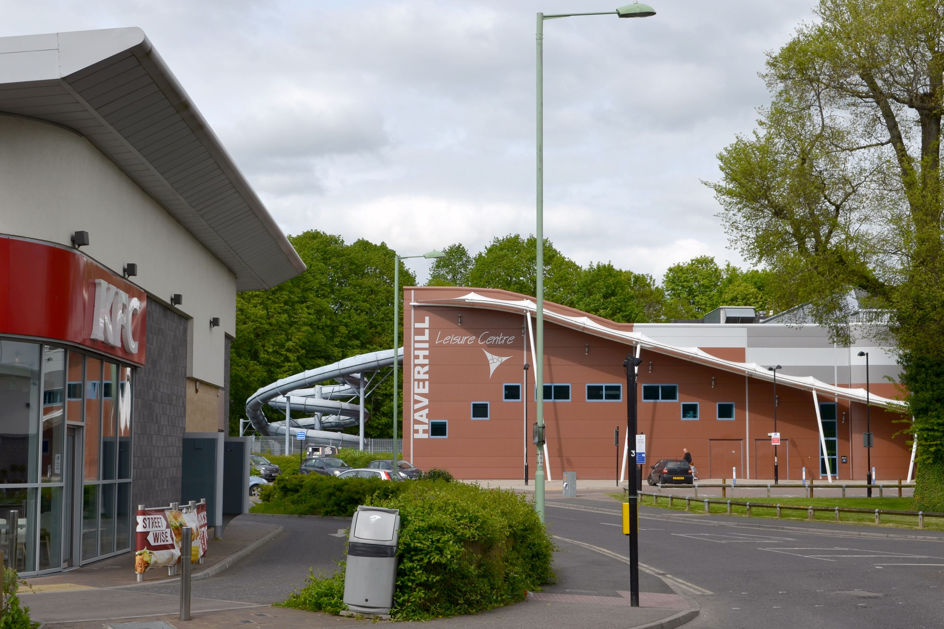 Leisure centre in Haverhill, England in May 2015.